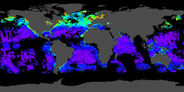 View of the phytoplankton in the Earth's oceans